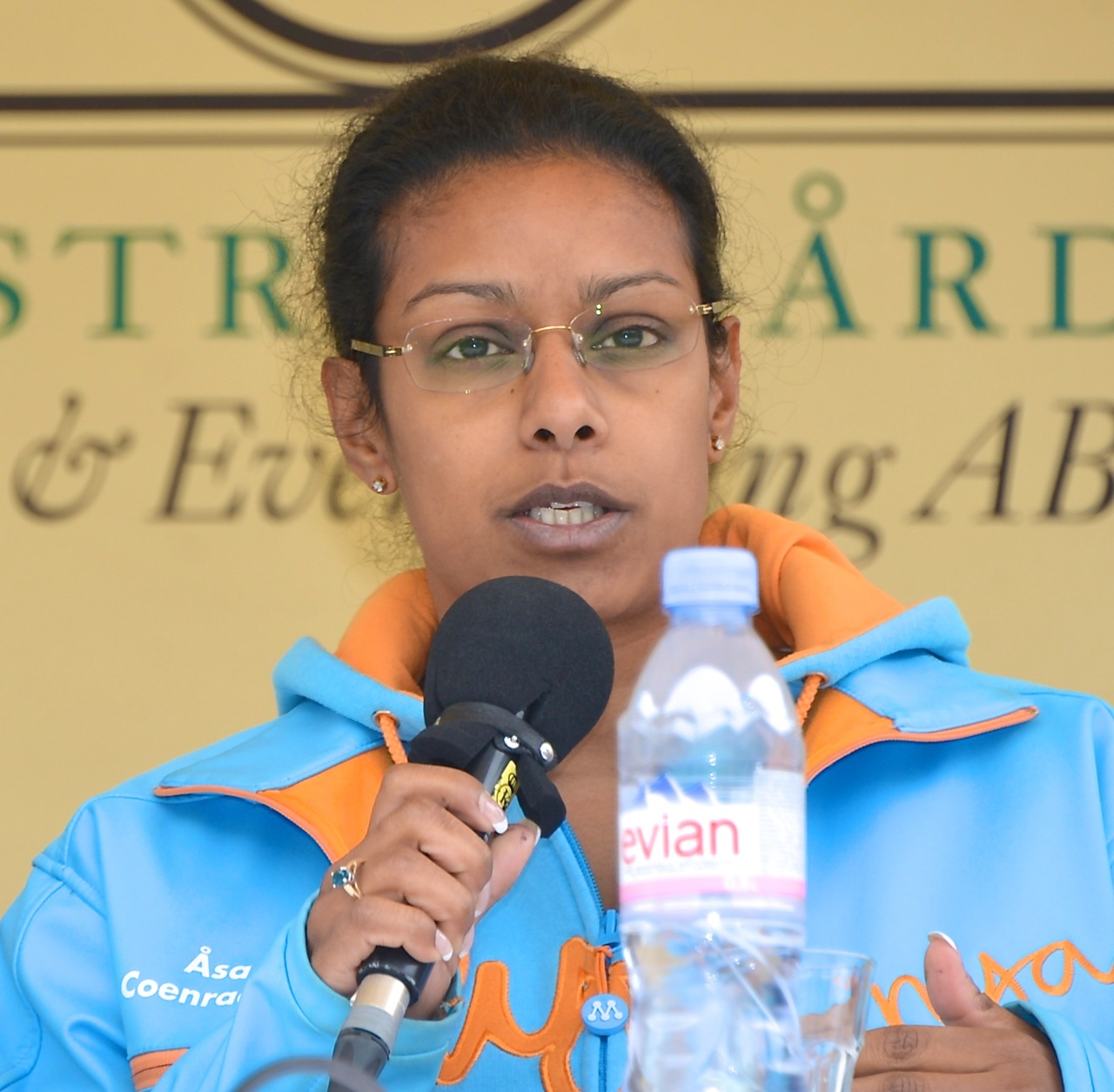 Åsa Coenraads in a panel discussion on animal welfare in the Kungsträdgården in Stockholm May 14, 2014 for the European elections.